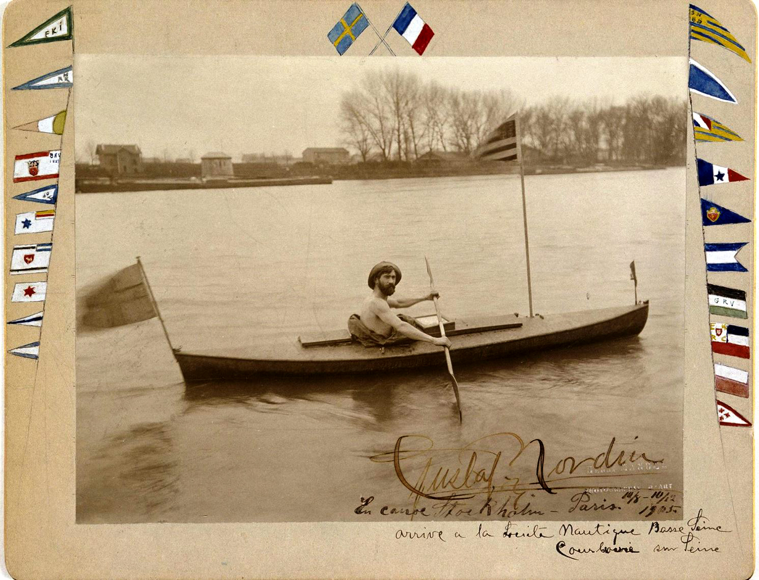 Gustav Nordin reaches Paris on his journey from Stockholm, December 1905